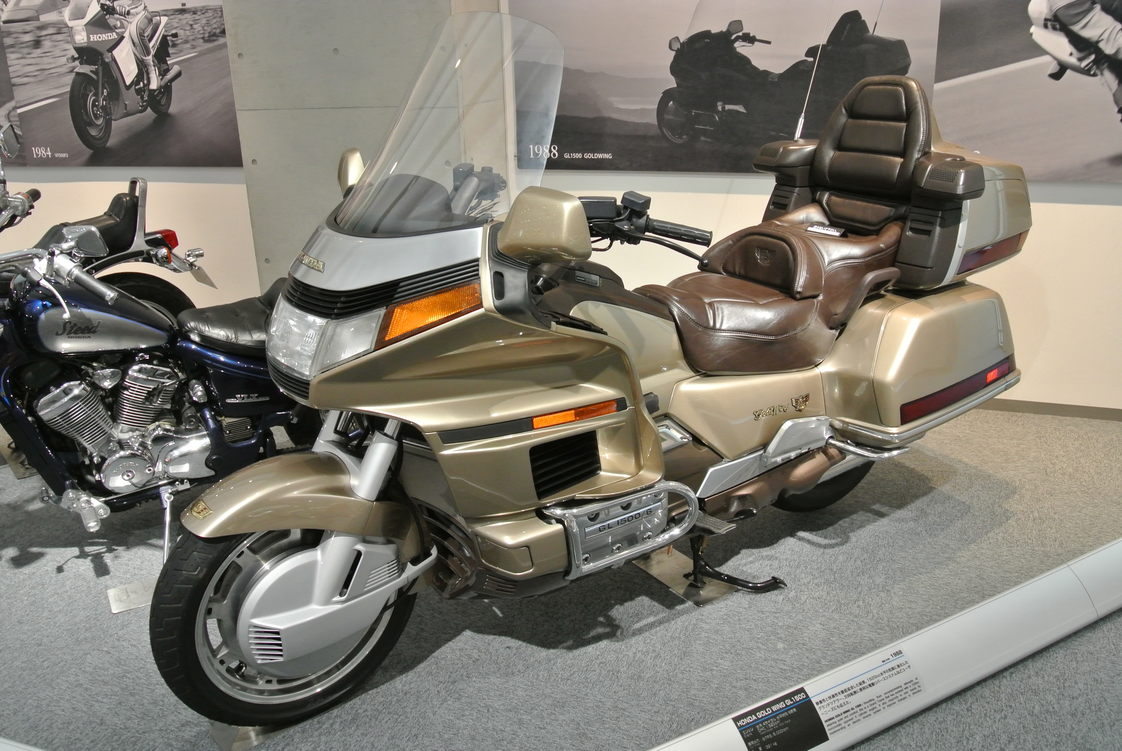 Honda GOLDWING GL1500 in the Honda Collection Hall.